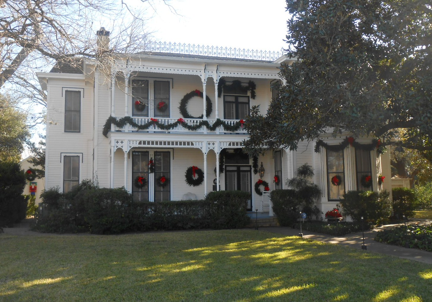 The C.T. Rather House at 828 St. Louis St. was built in the late Victorian style in 1892 by William H. Kishbaugh, working for Charles Taylor Rather.